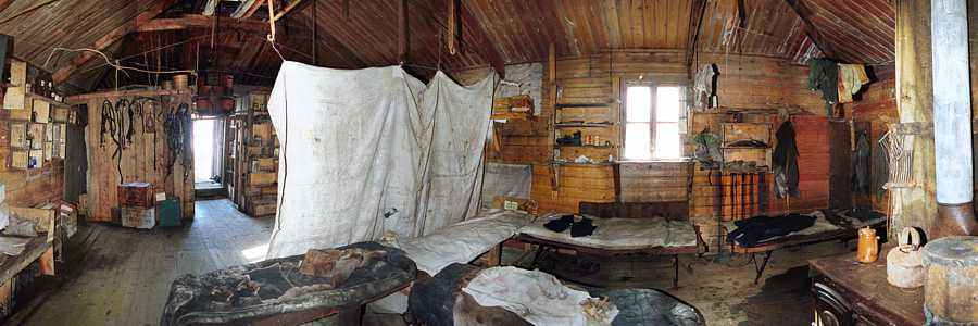 Inside the Nimrod Hut